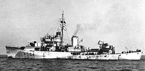 HMCS Thorlock- Flower class corvette (Revised).